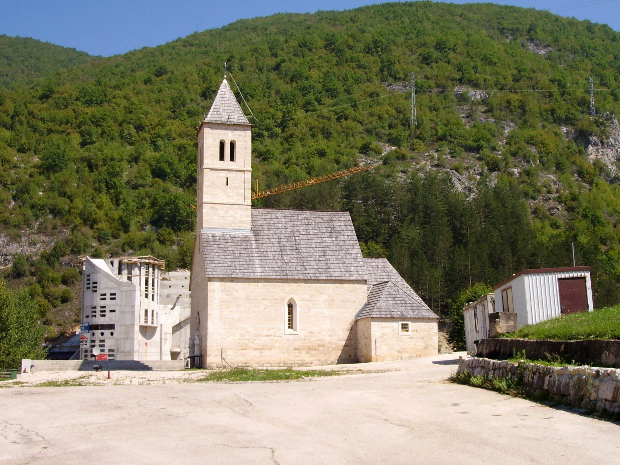 Churches in Podmilačje, Jajce municipality, Bosnia.